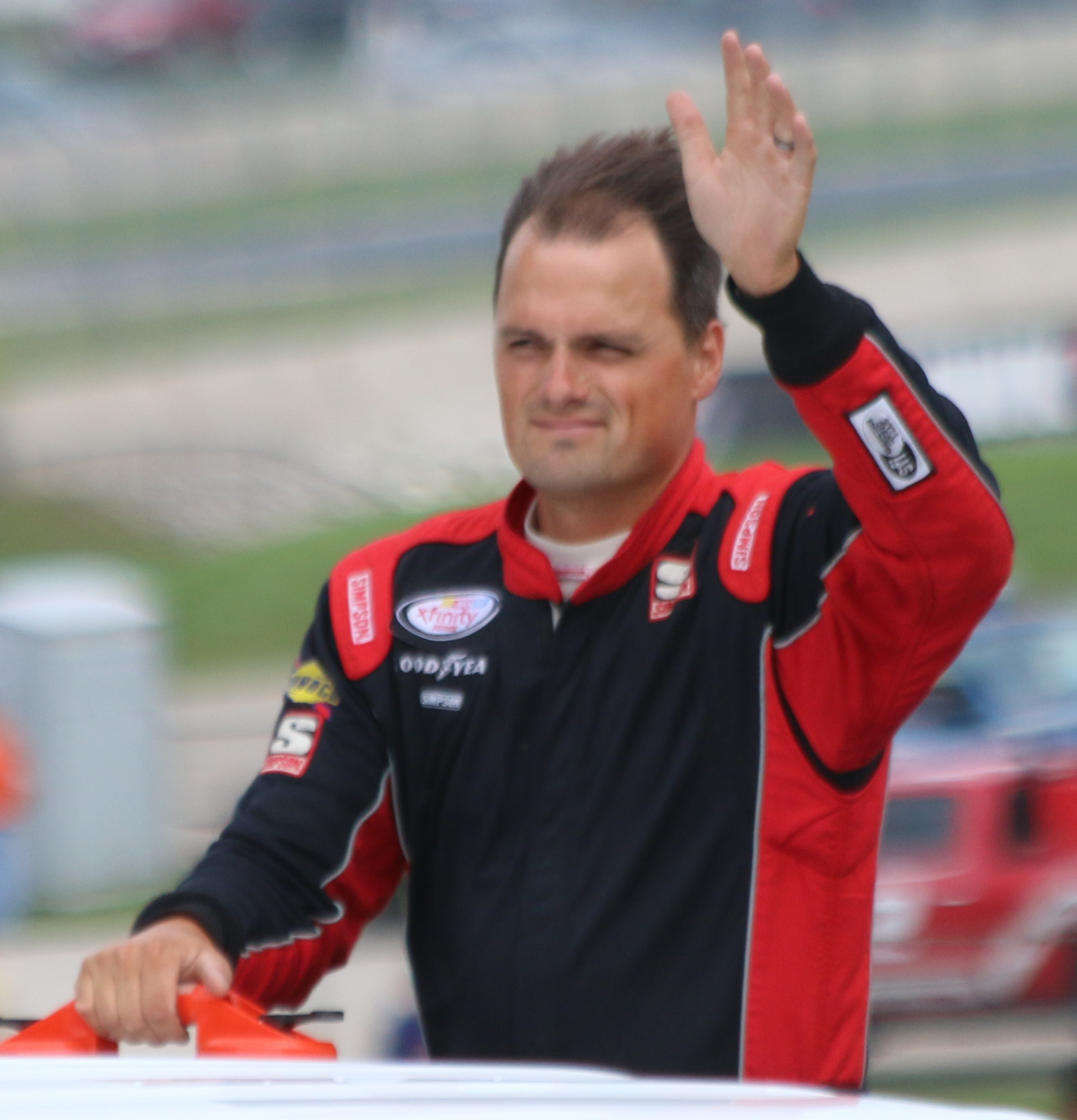 NASCAR driver Dexter Bean during the driver's introductions lap at the 2017 Johnsonville 180 race in the Xfinity Series race at Road America.